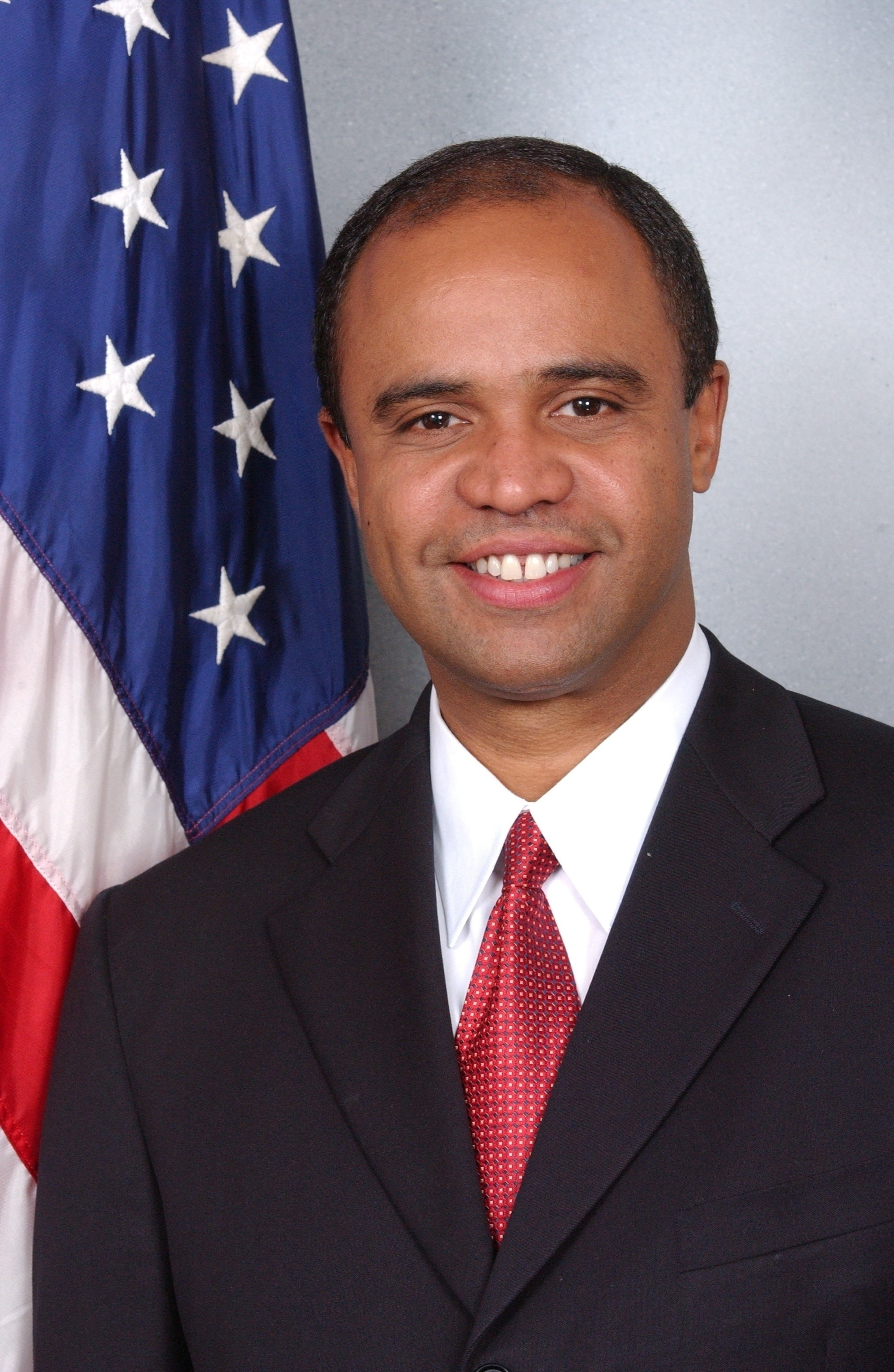 A head shot of Adolfo Carrion as Deputy Assistant to the President and Director of the Office on Urban Affairs